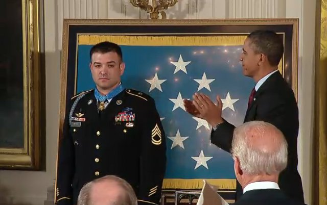 President Barack Obama presenting the Medal of Honor to Sgt. 1st Class Leroy A. Petry at the White House on July 12th, 2011.